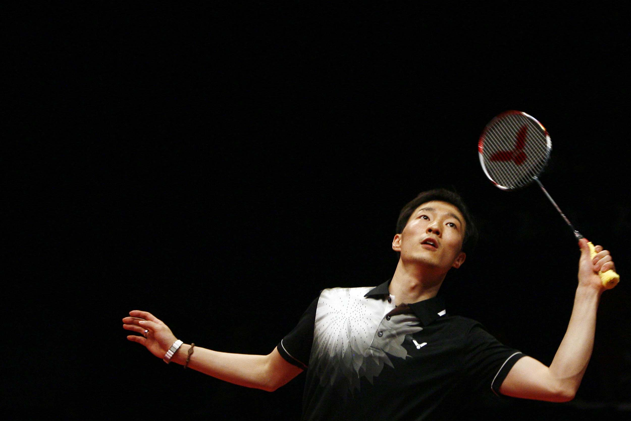 Lee Hyun at 2013 Axiata Cup